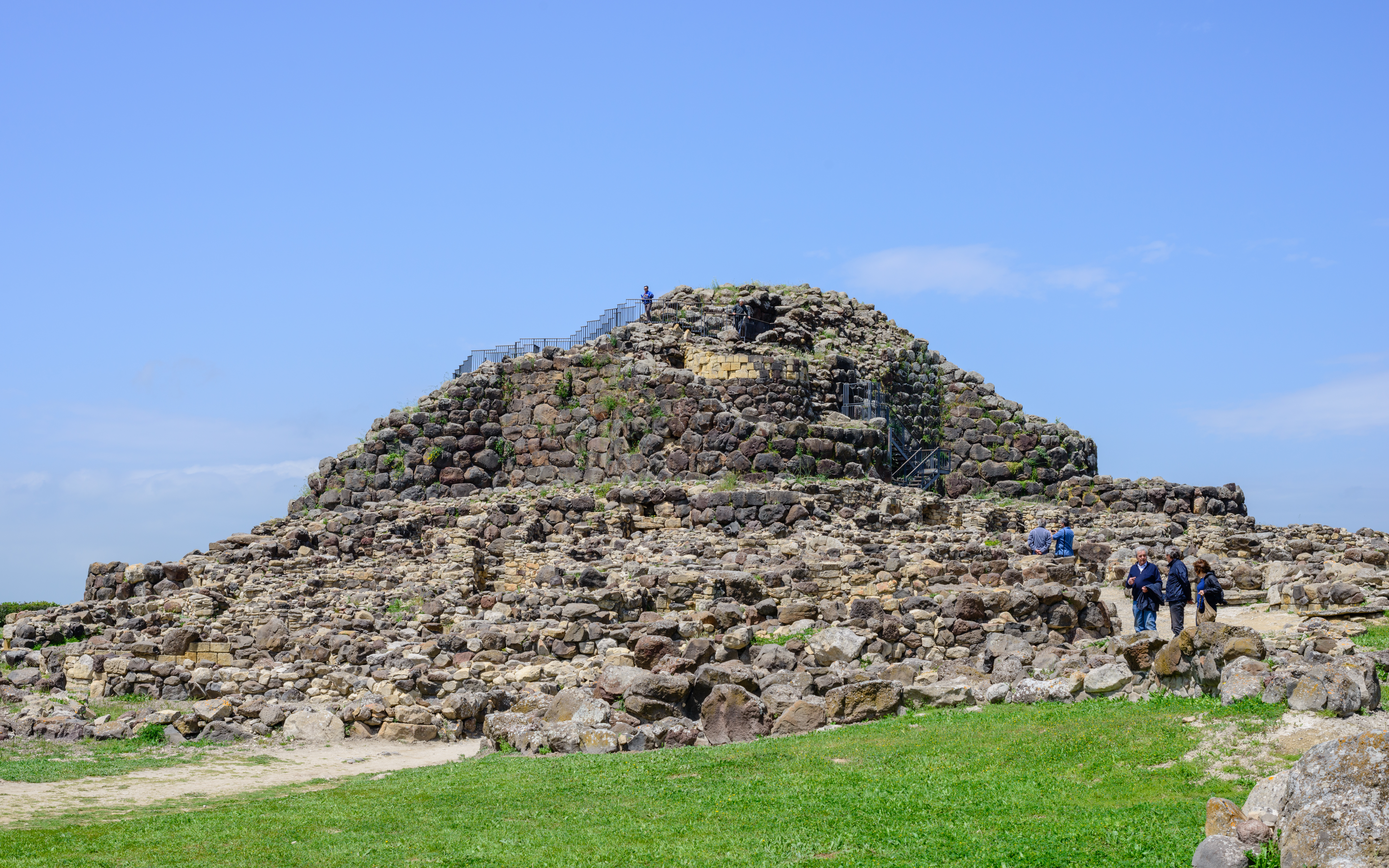 Su Nuraxi is a nuragic archaeological site in Barumini, Sardinia, Italy. The complex is centred around a three-storey tower built around the 16th century BC.